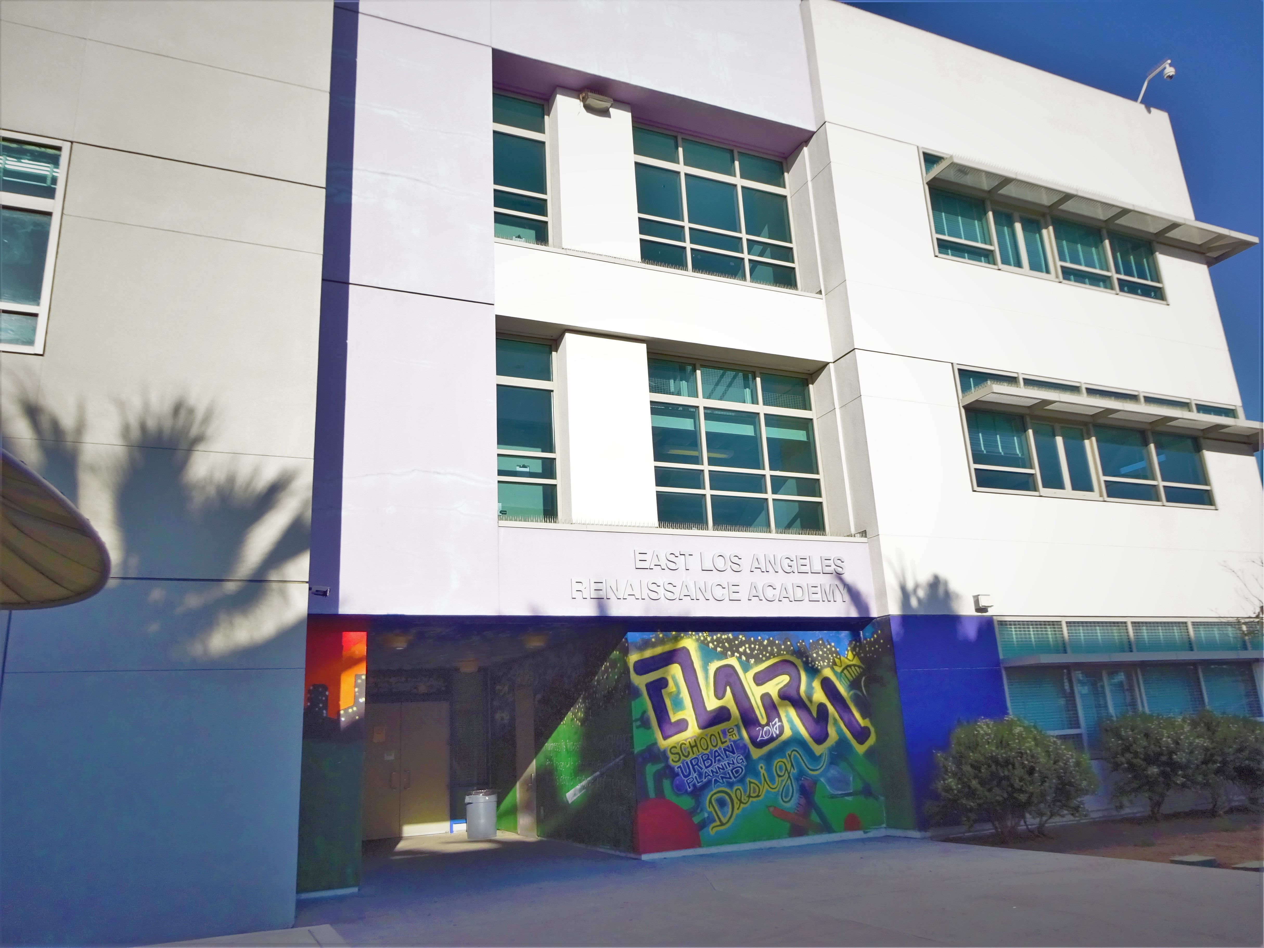 Façade of the East Los Angeles Renaissance Academy